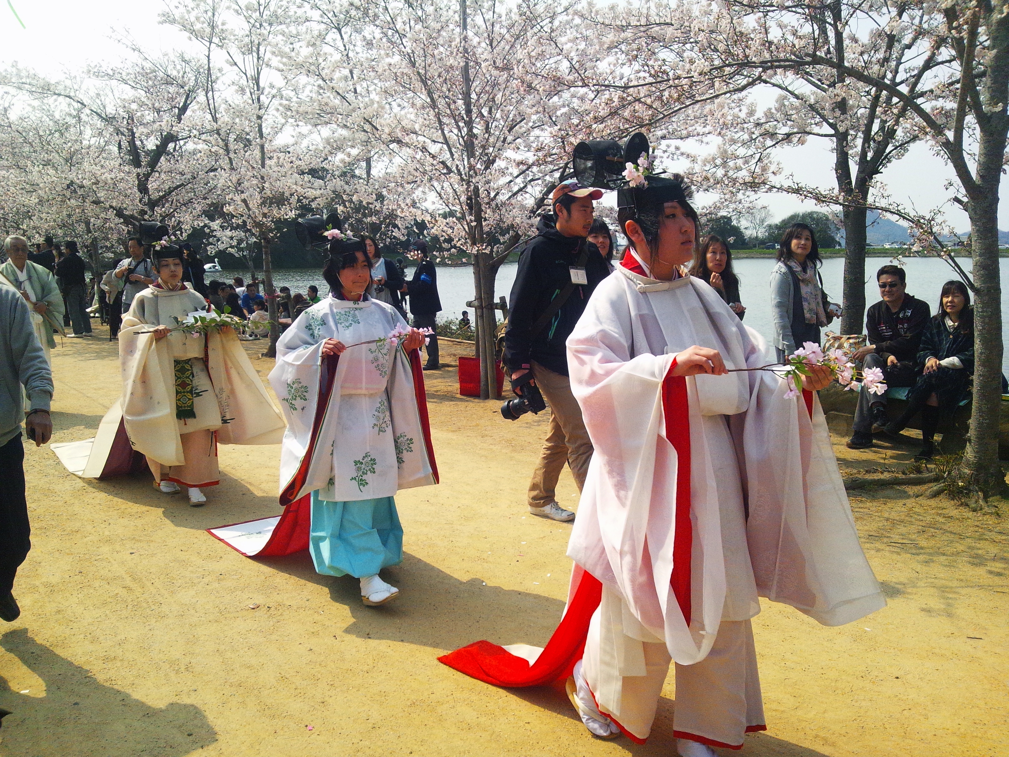 Hana shizume no matsuri. Matrix of festival passes through the row of cherry blossom trees.